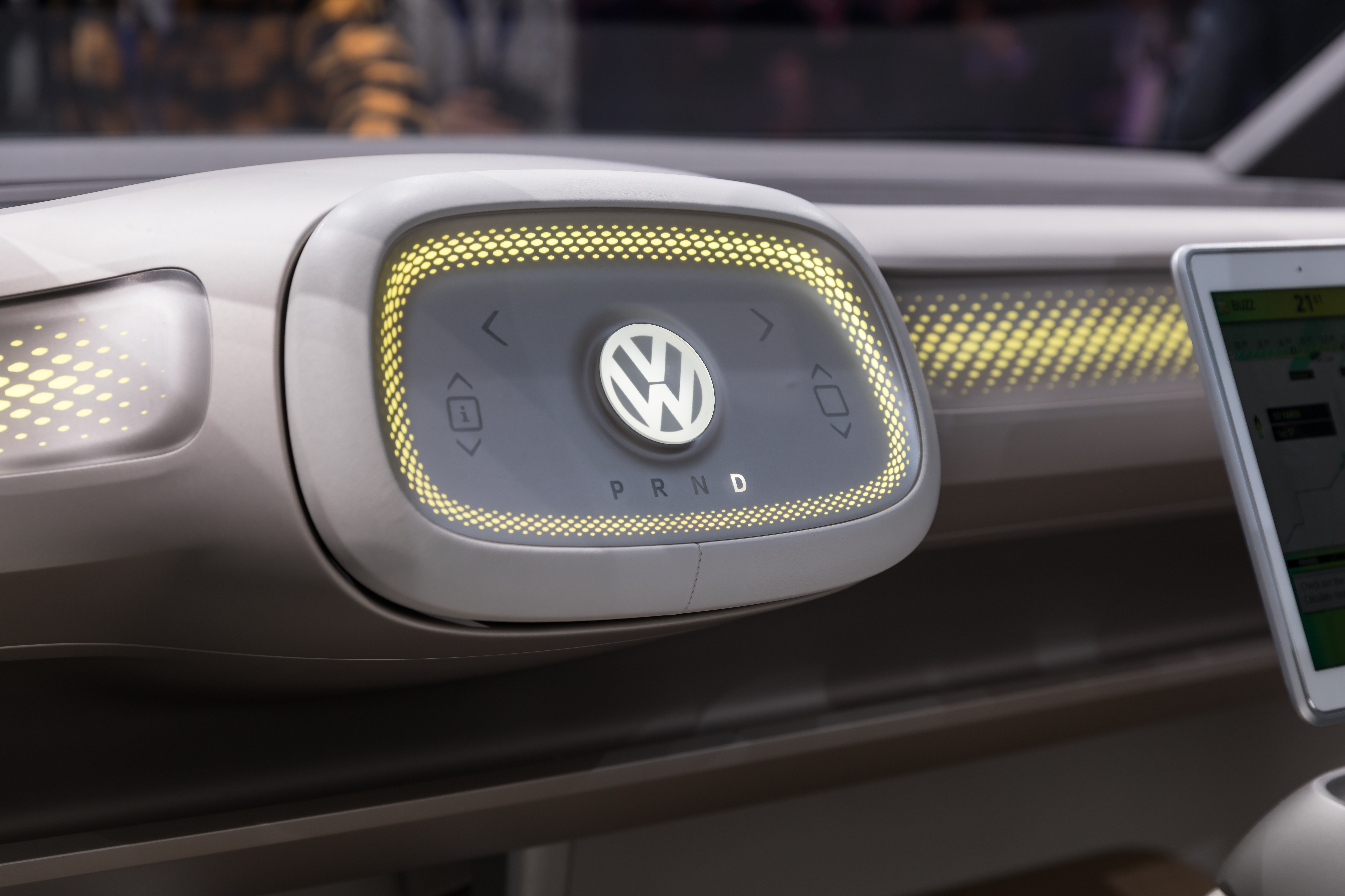 Geneva International Motor Show 2018